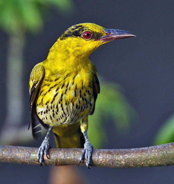 Black-naped Oriole Oriolus chinensis- Immature in Kolkata, West Bengal, India.